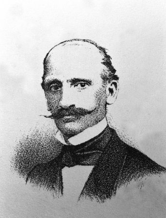 Ioannis Deligiannis (1815-1876): Greek politician